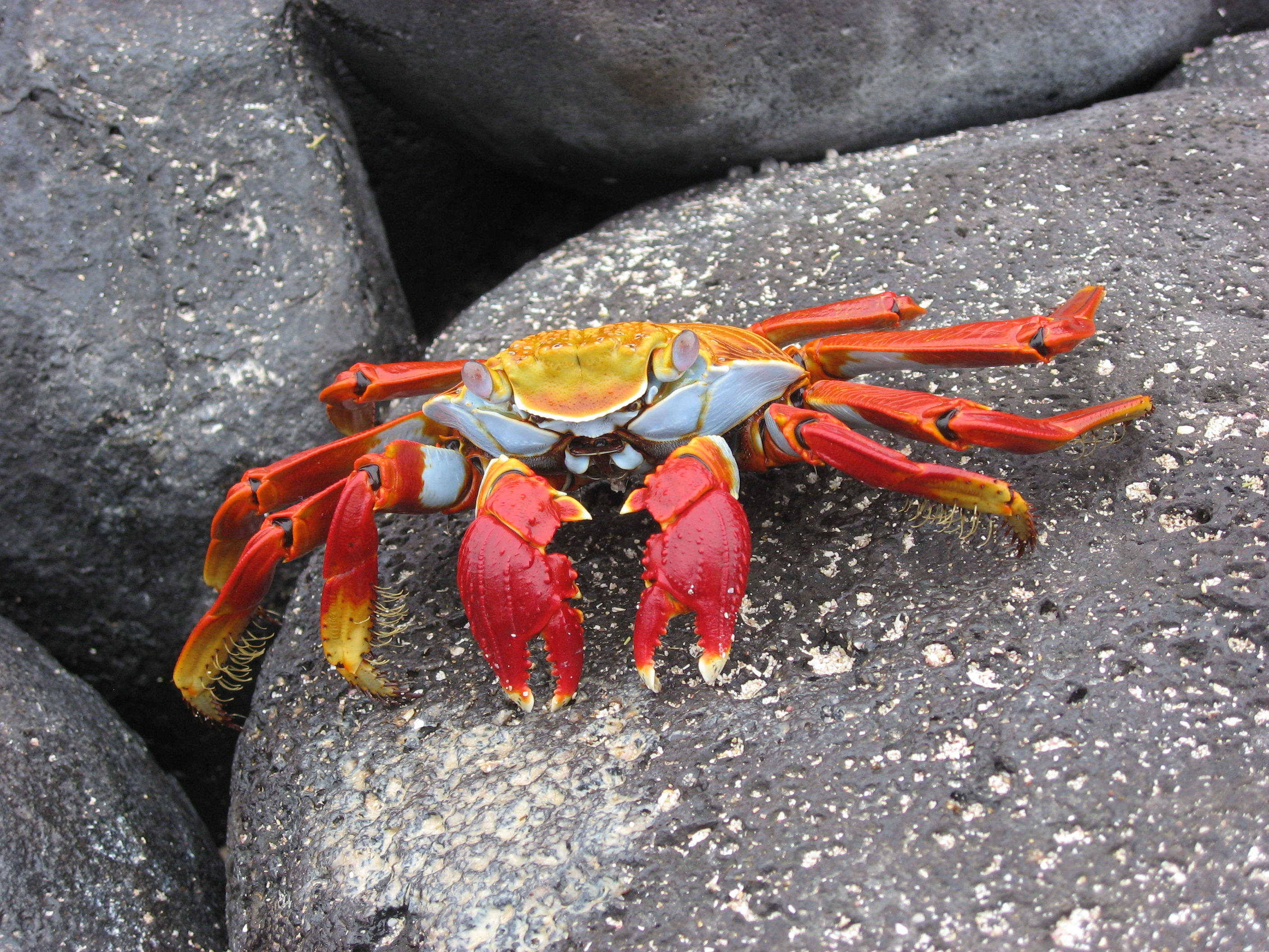 An adult Sally Lightfoot red rock (Grapsus grapsus) crab in the Galápagos Islands.